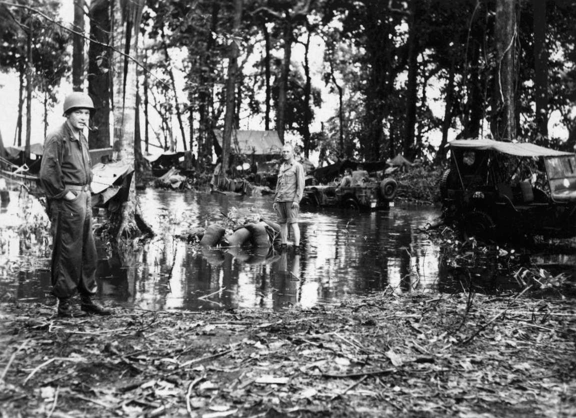 General Shepherd in the wet camp site of Cape Gloucester.